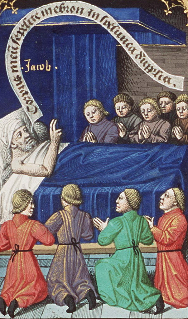 Jacob Blessing His Sons, miniature by François Maitre from Augustine's "La Cité de Dieu", book I-X (manuscript "Den Haag, MMW, 10 A 11"). Book 1, 13; at the Museum Meermanno Westreenianum, The Hague